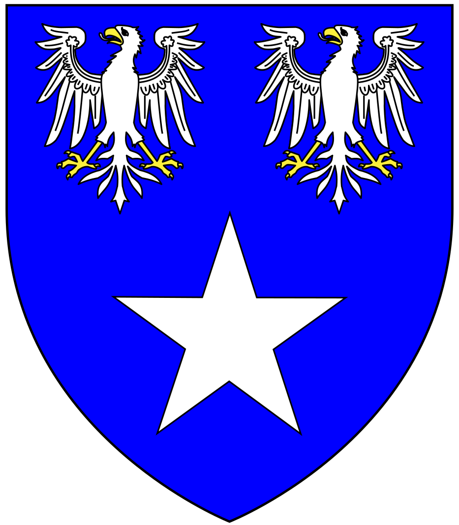 Arms of Fownes family of Kittery Court, Devon & Nethway in the parish of Brixham, Devon & Dunster Castle, Somerset: Azure, two eagles displayed in chief and a mullet in base argent (Vivian, Lt.Col. J.L., (Ed.) The Visitation of the County of Devon: Comprising the Heralds' Visitations of 1531, 1564 & 1620, Exeter, 1895, p.372)